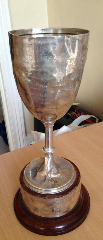 United Hospital's 2's Cup